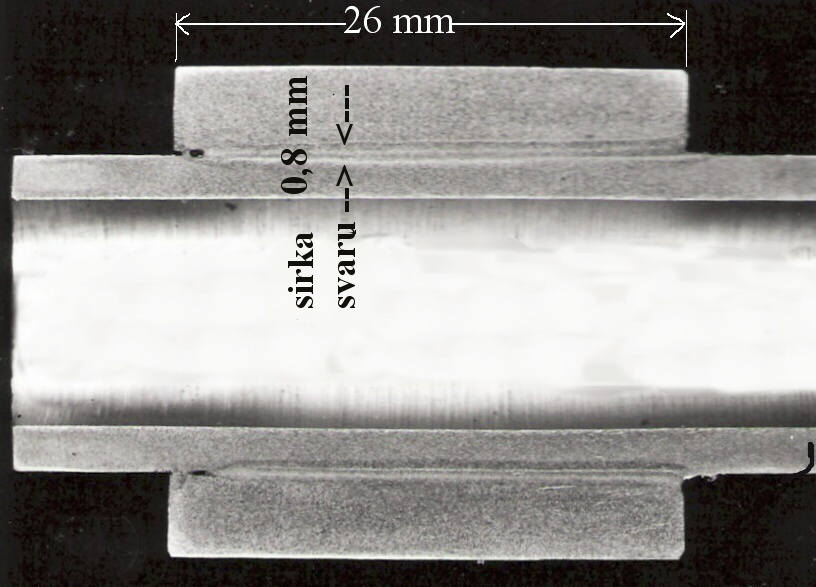 Deep test veld